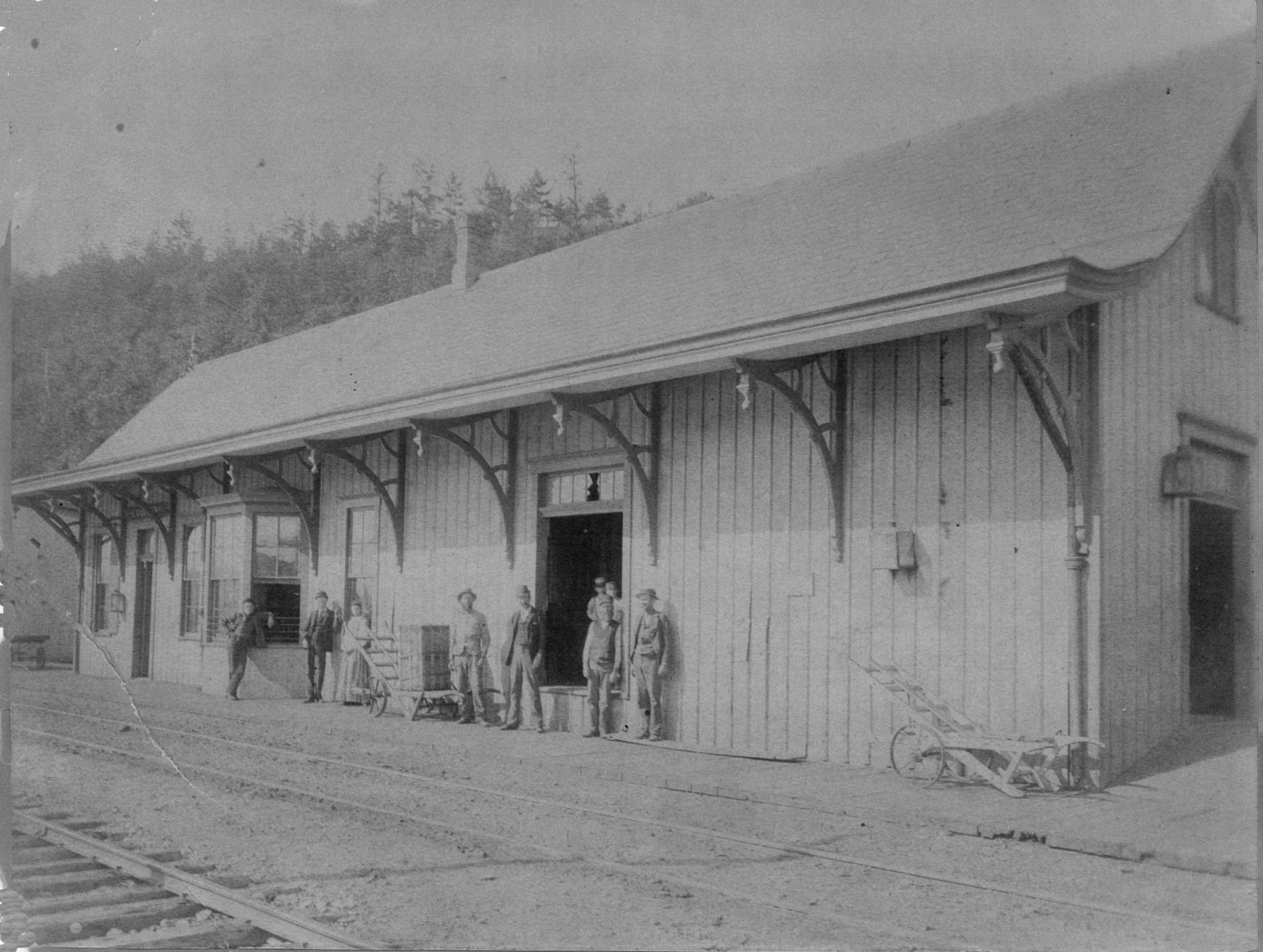 Painted Post depot shortly after opening.